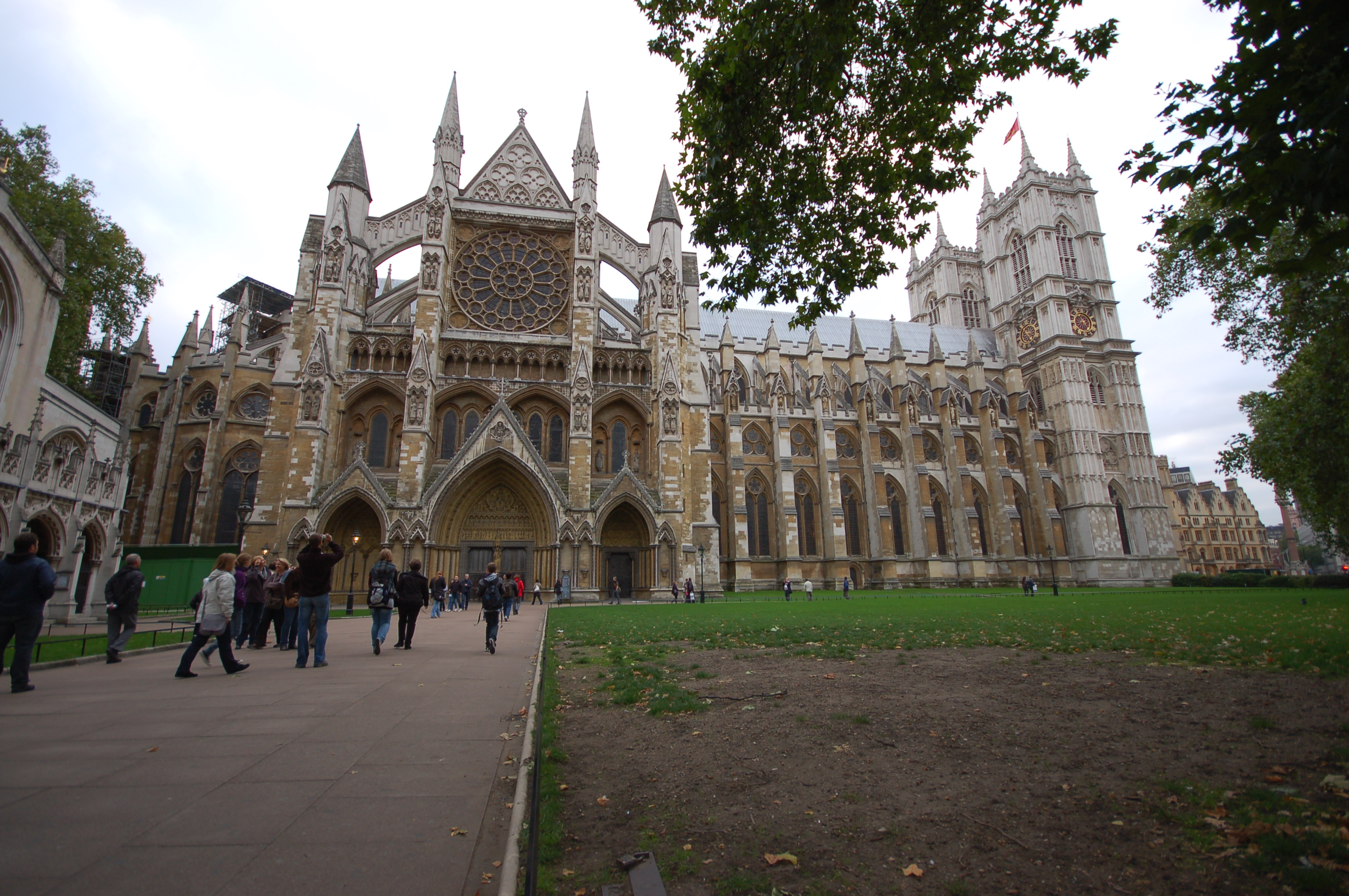 Westminster Abbey in London, UK